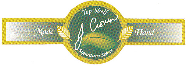 Signature Select cigar band